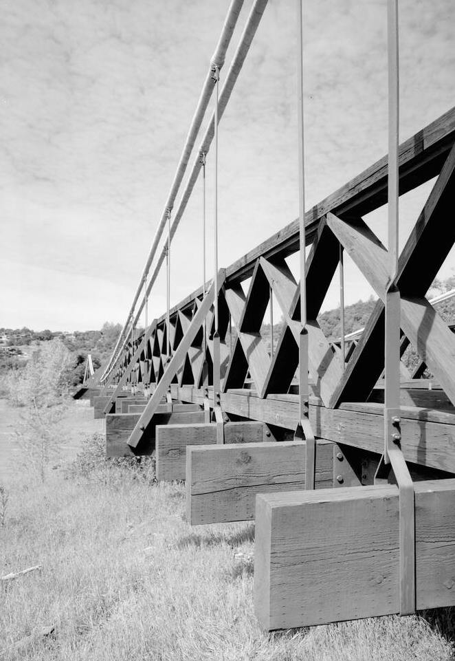 The "Old" Bidwell Bar Bridge — originally spanning the Feather River, in Butte County, California. Relocated beside Lake Oroville, after construction of theand submersion of the site by Lake Oroville. Built in 1855, it is first steel suspension bridge in California, a National Historic Civil Engineering Landmark, and a California Historical Landmark.